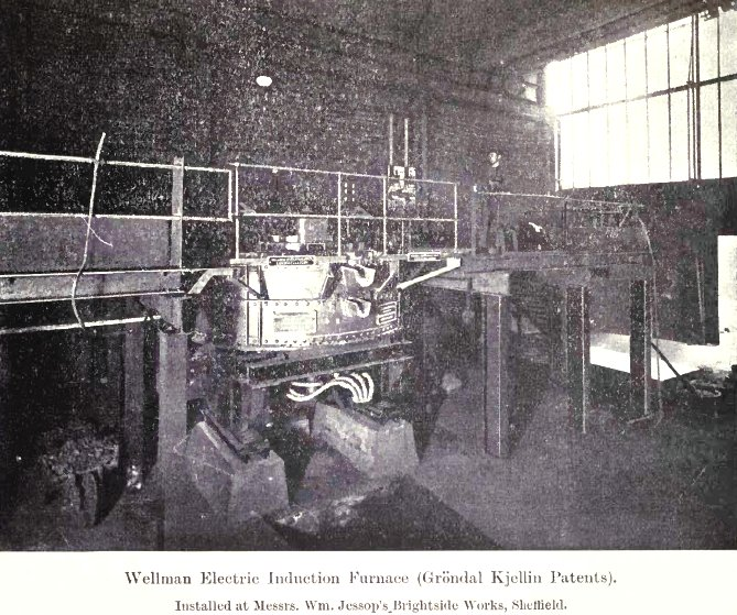 Wellman electric induction furnace (Gröndal Kjellin patents), Brightside works, Sheffield